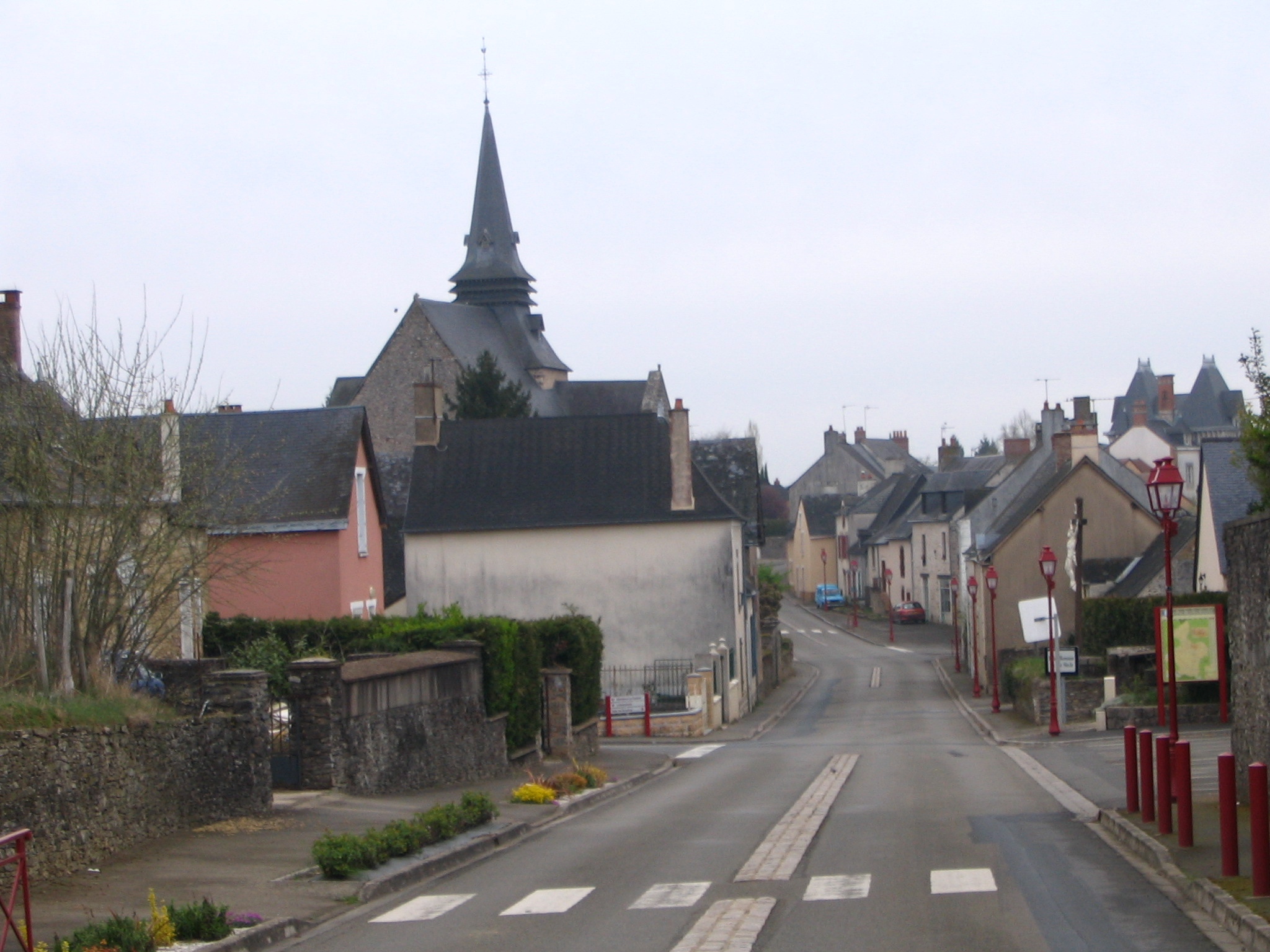 A street of Saint-Rémy-de-Sillé, Sarthe, France.